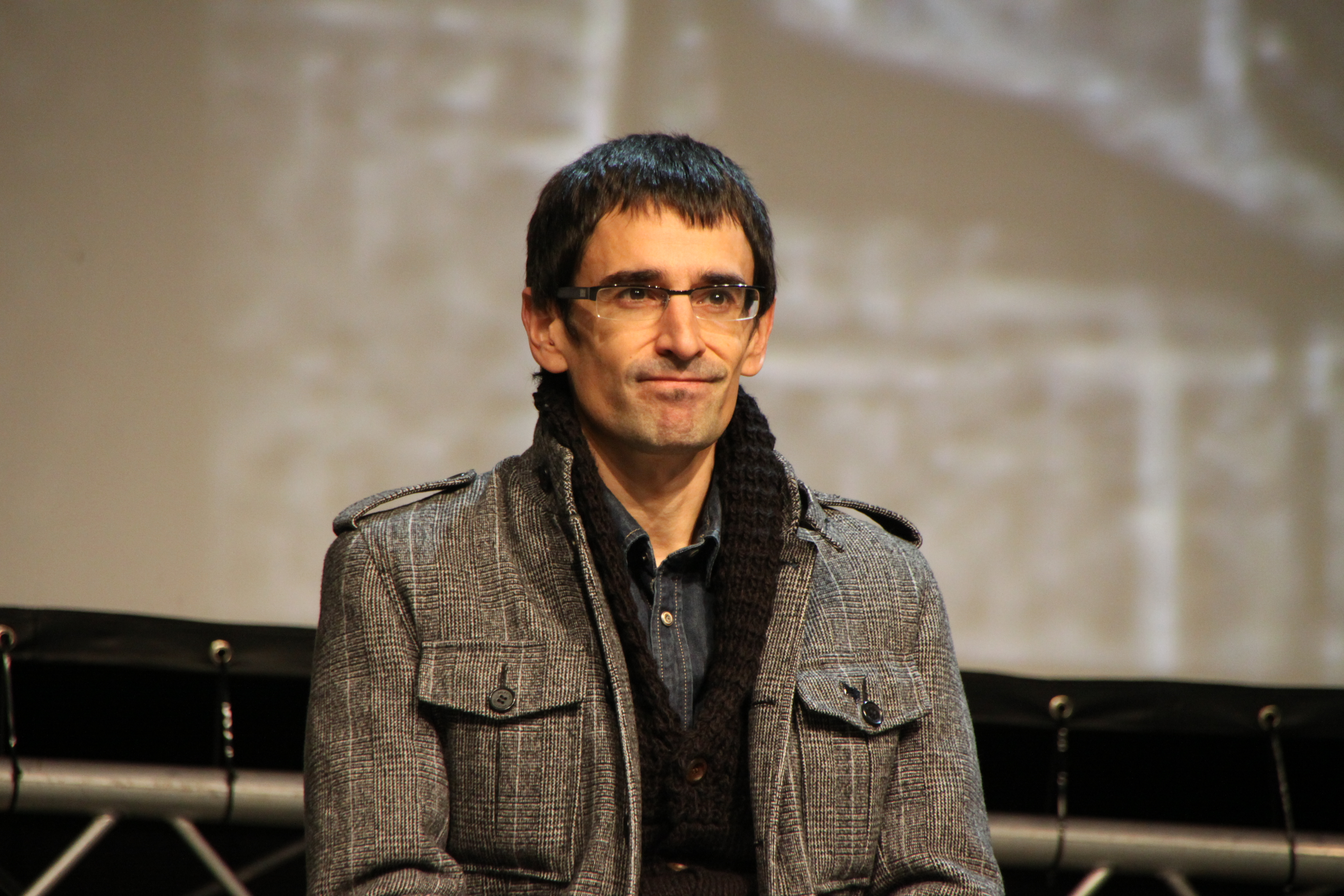 Bertsolari Igor Elortza at the General Bertsolari Championship of 2013